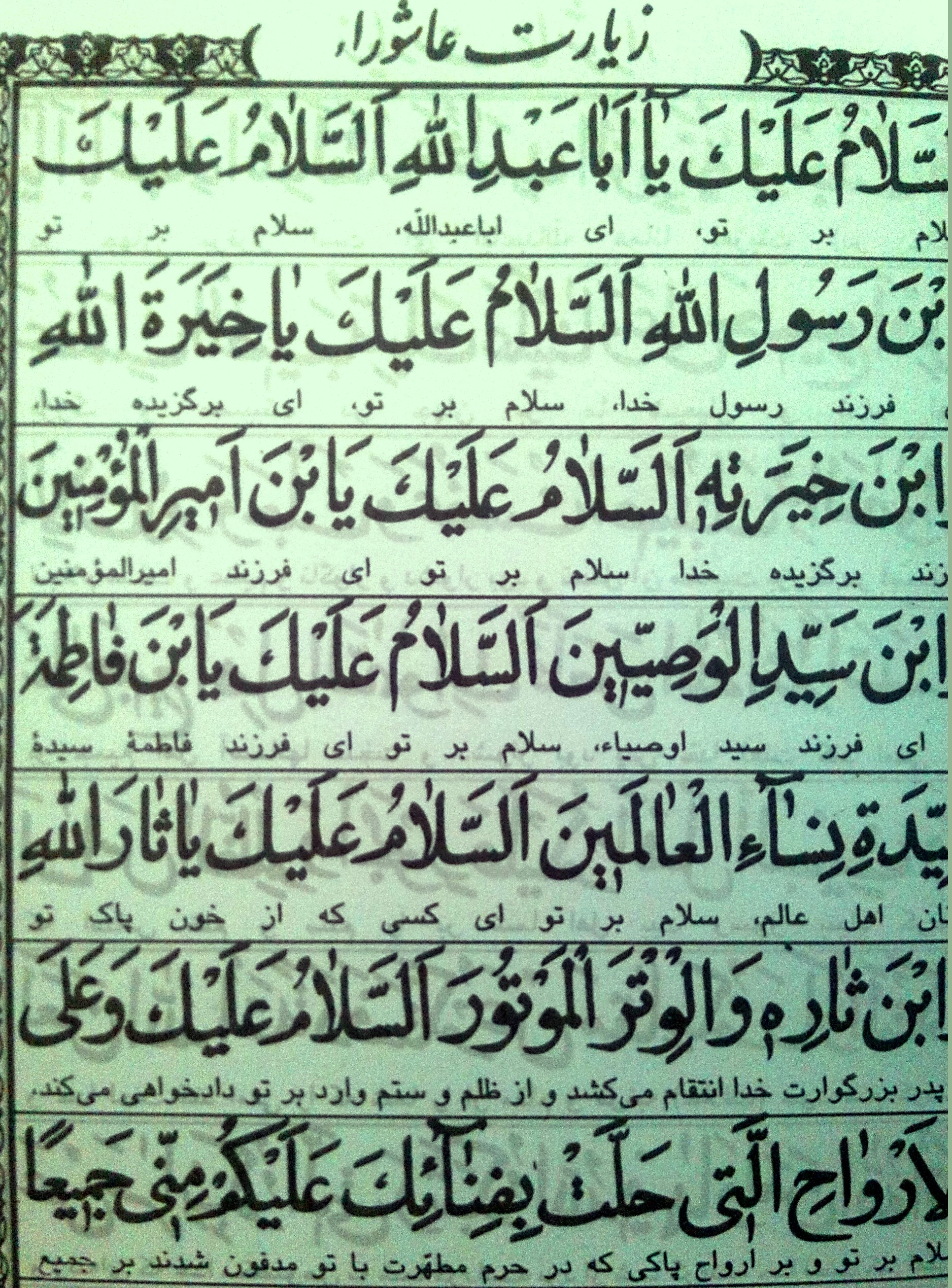 Ziyarat Ashura (Template:Lang-ar Template:Lang-fa) is salutations to the martyrs of Karbala who sacrificed their life along with that of Aba Abdillah [a] for the sake of Islam and for preserving Islam.